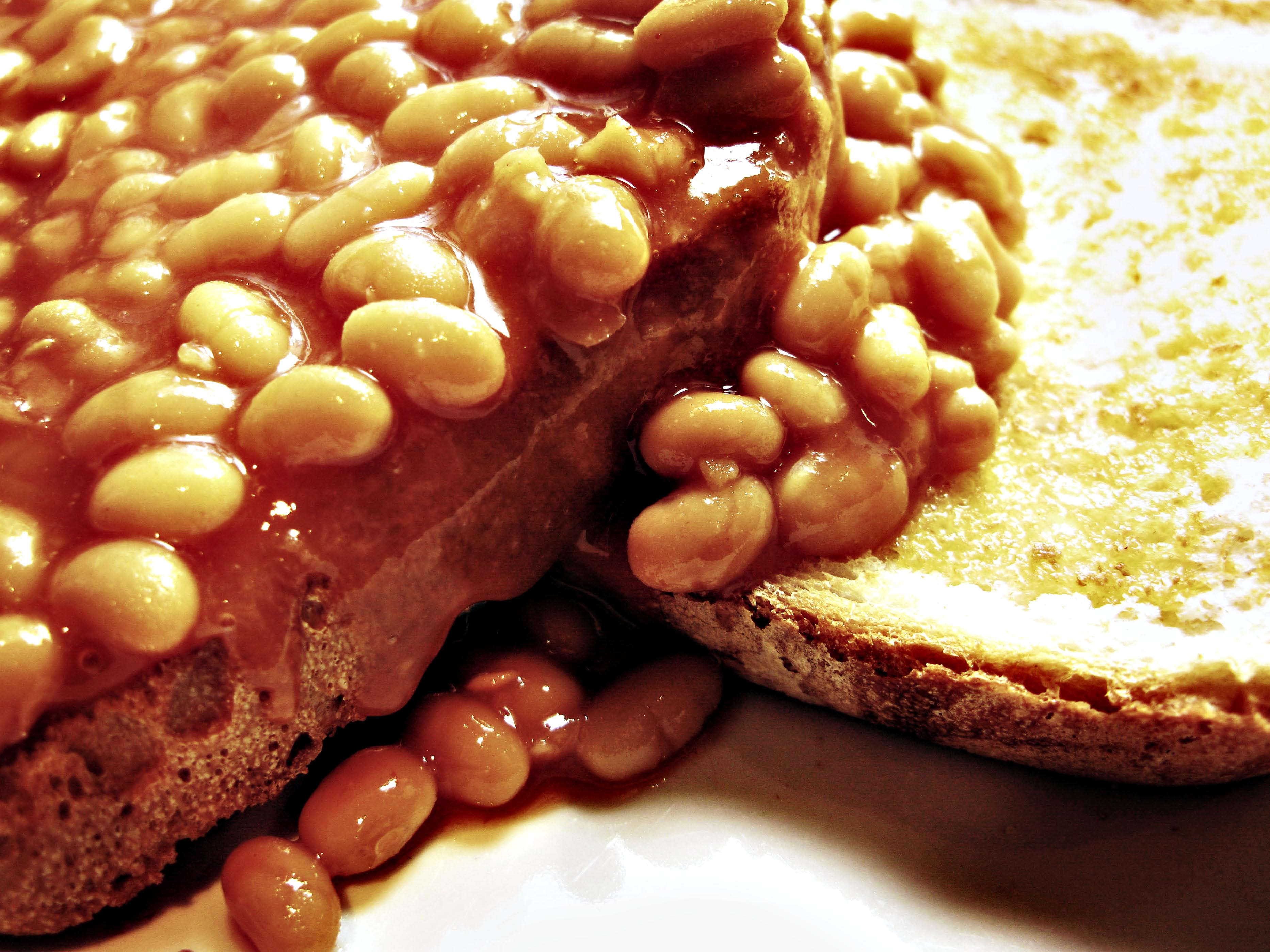 Beans on toast